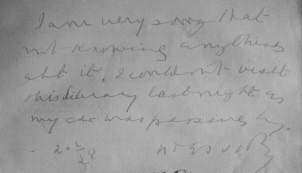 Gandhijis hand writing in Karunagapally Lalaji library's visitors book